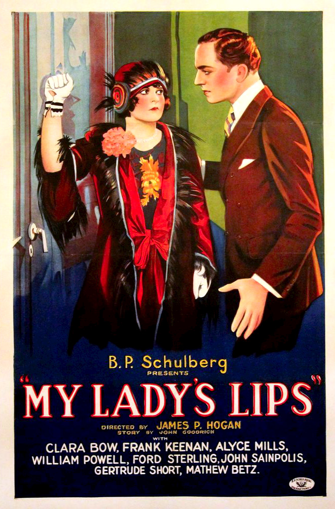 Poster for the 1925 film My Lady's Lips. The item has no copyright markings on it as can be seen in the links above.